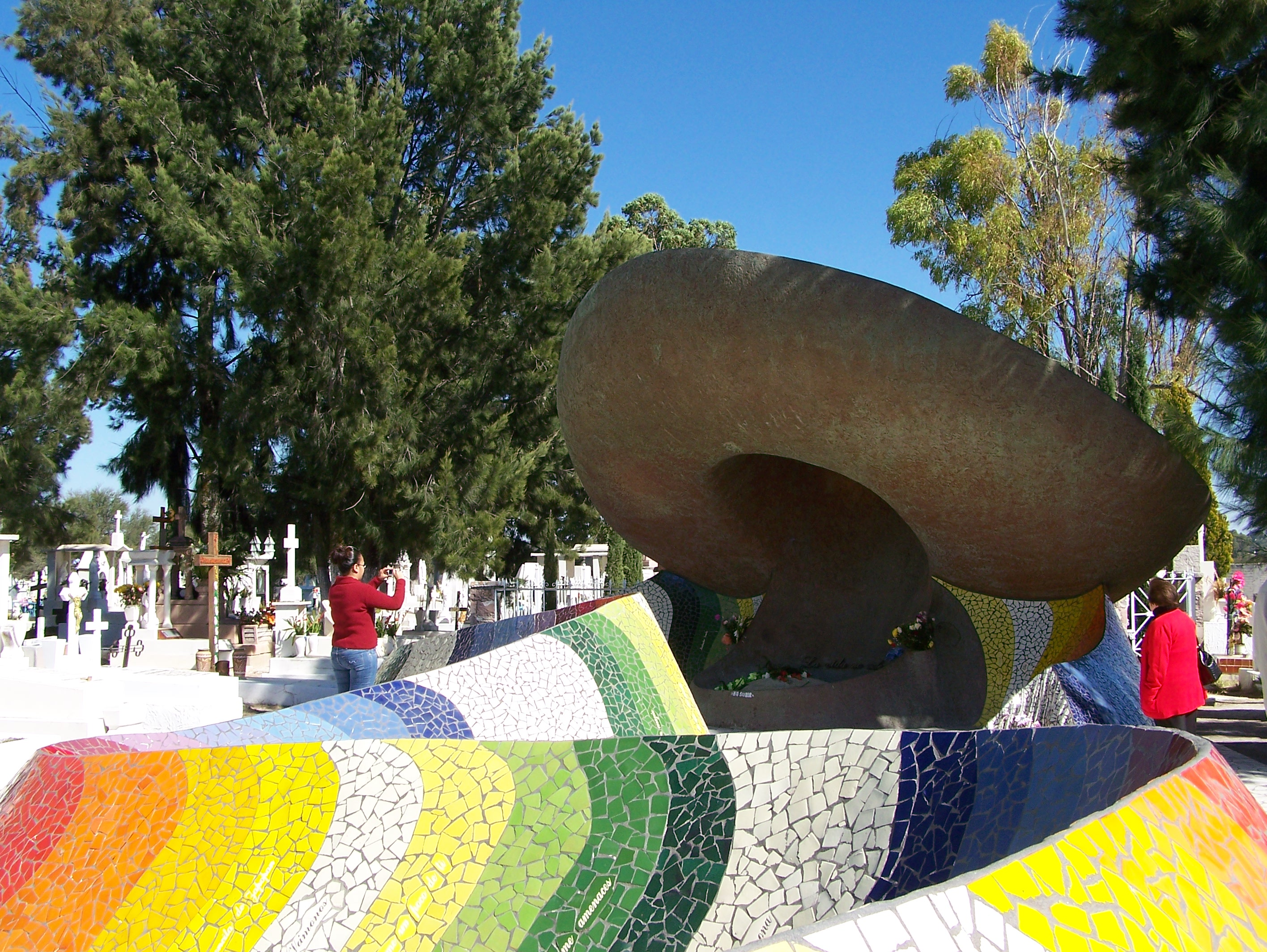 José Alfredo Jiménez's grave made of two symbols that identify Mexican culture (a sarape and a sombrero), now a tourist attraction.